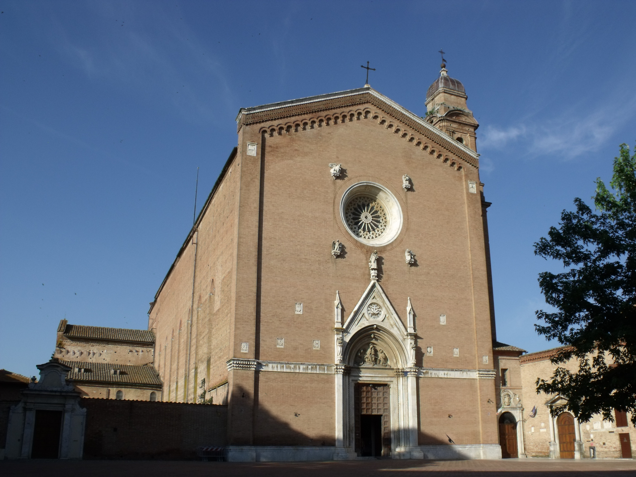 Basilica di San Francesco (Siena), Front